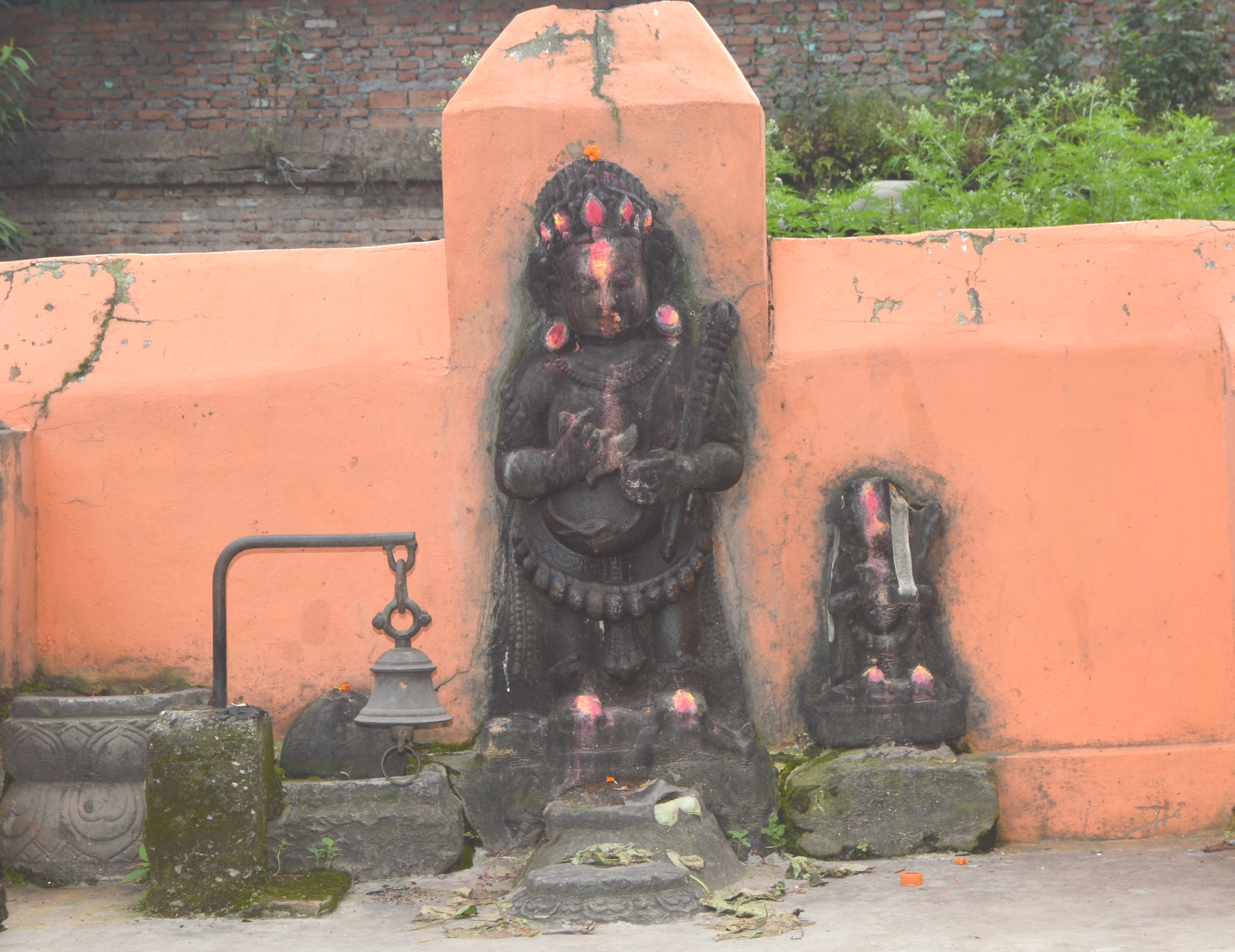 Mahankal Bhairav statue.Lord Shiva's fearsome forms is as Kāla (Sanskrit: काल), "time", and as Mahākāla (Sanskrit: महाकाल), "great time", which ultimately destroys all things. Bhairava (Sanskrit: भैरव), "terrible" or "frightful", is a fierce form associated with annihilation.